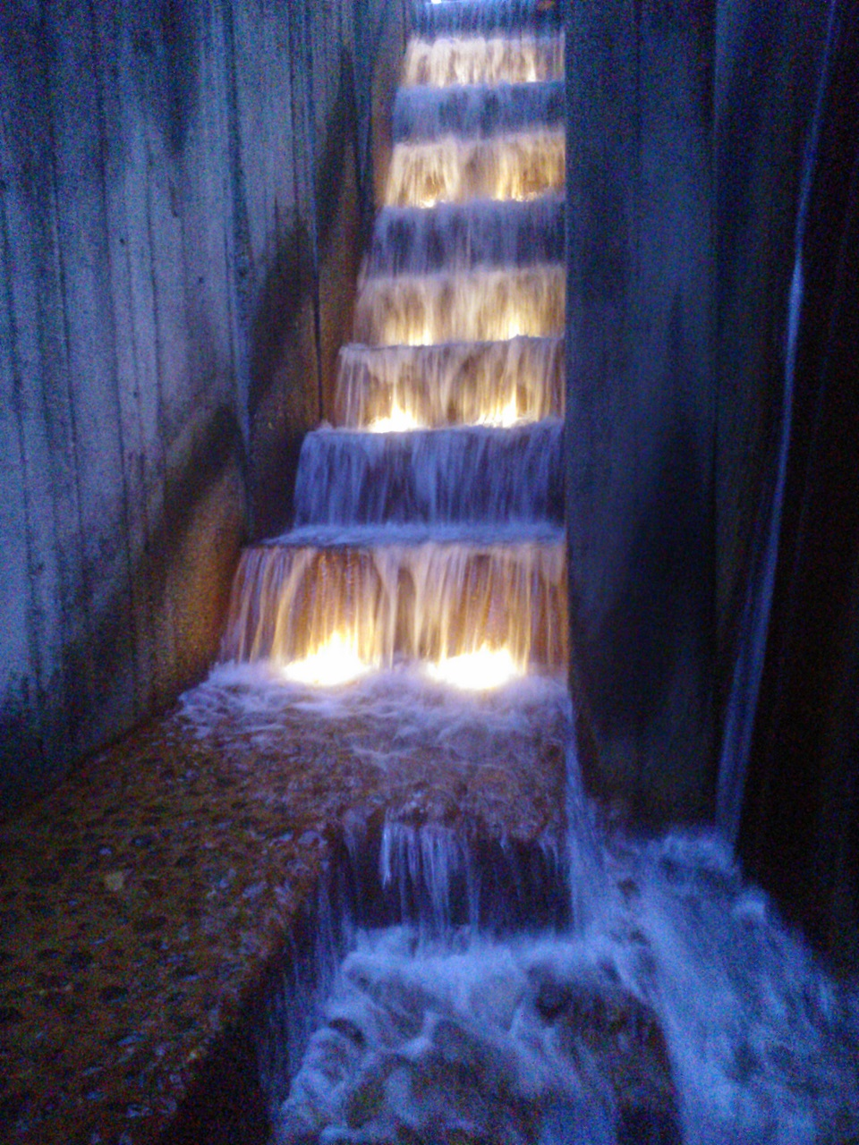 Urban park created in 1970 run by Portland parks and recreation